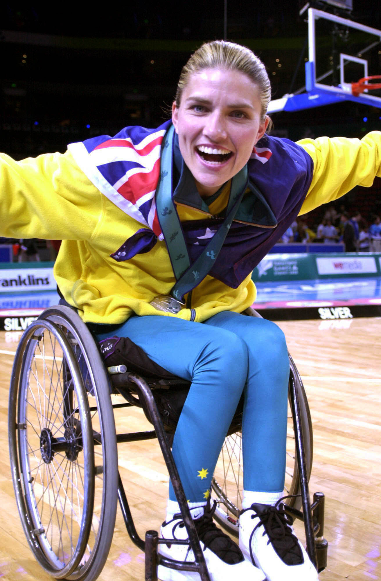 Australian wheelchair basketballer Lisa O'Nion with her silver medal at the 2000 Sydney Paralympic Games